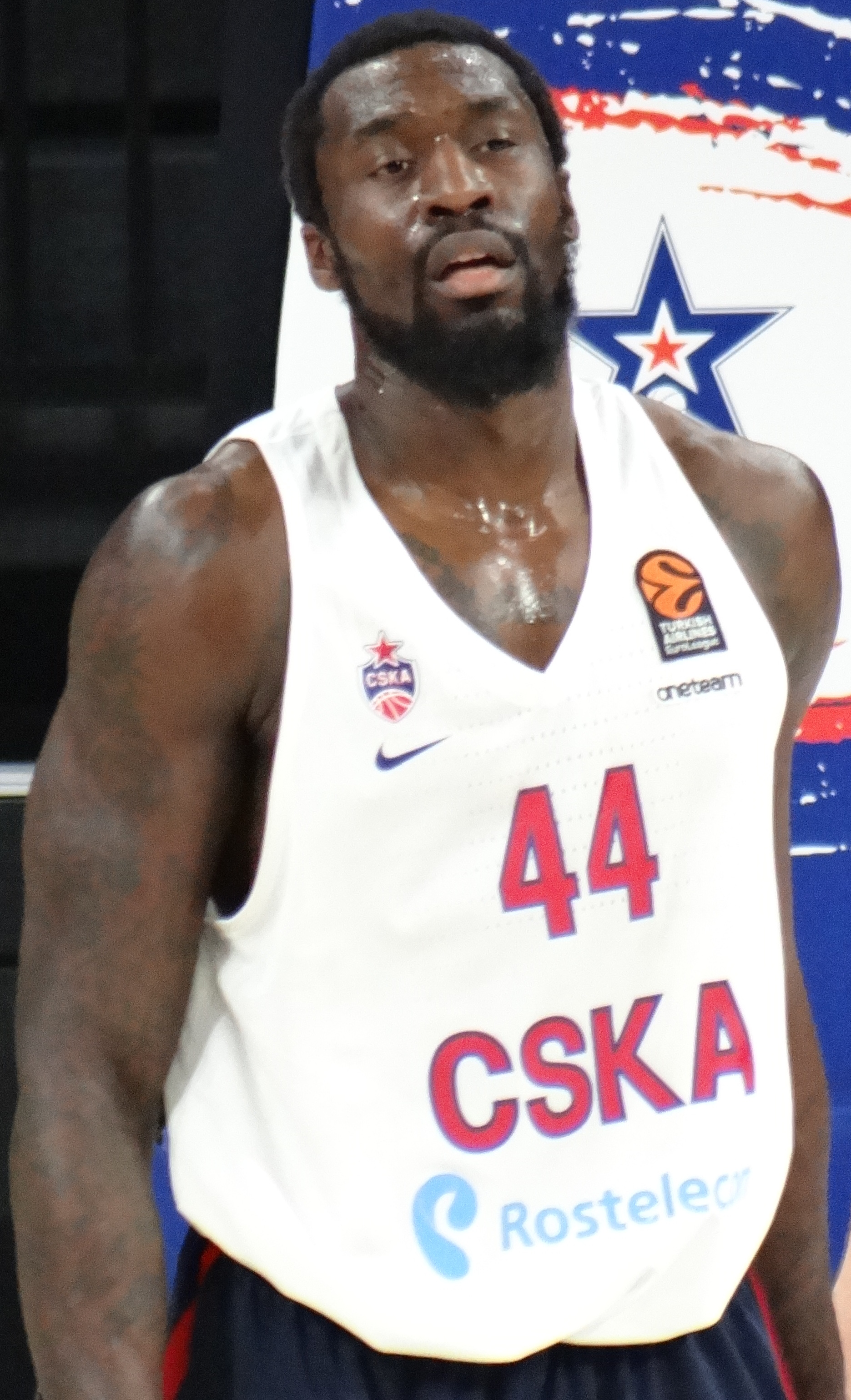 Othello Hunter 44 PBC CSKA Moscow 20171027